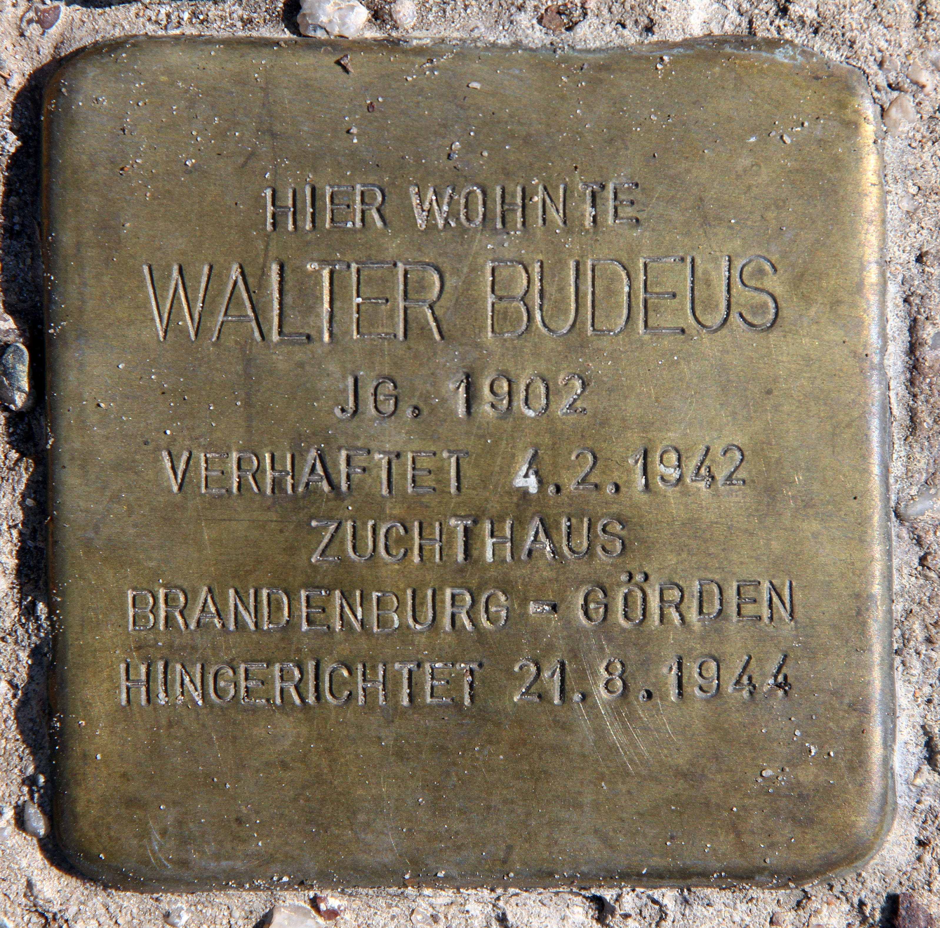 "Stolperstein" (stumbling block), Walter Budeus, Am Fölzberg 9, Berlin-Lübars, Germany